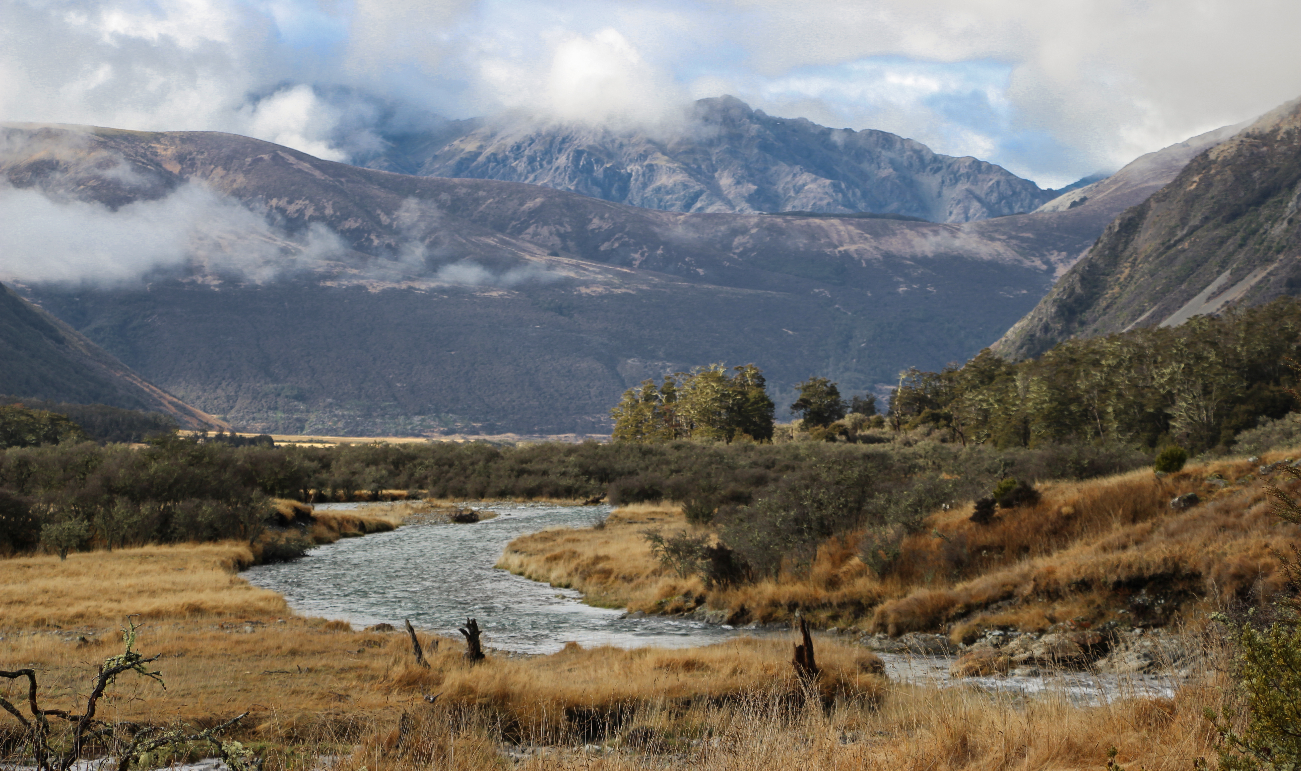 Ada River. Photo taken from the track between Ada Pass and Christopher Cullers Hut (historic). St James Walkway, New Zealand